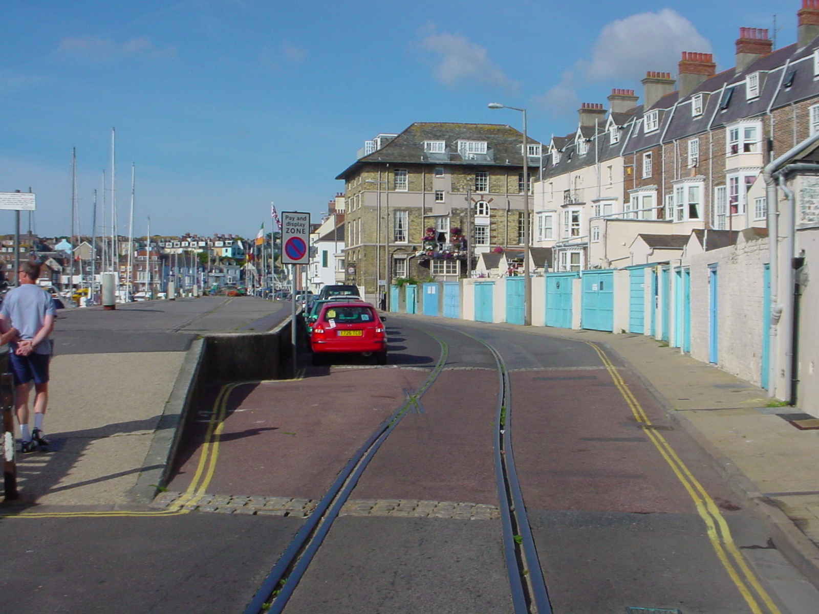 The disused Harbour Tramway (built 1864) seen near the former cargo loading stage, 2005.